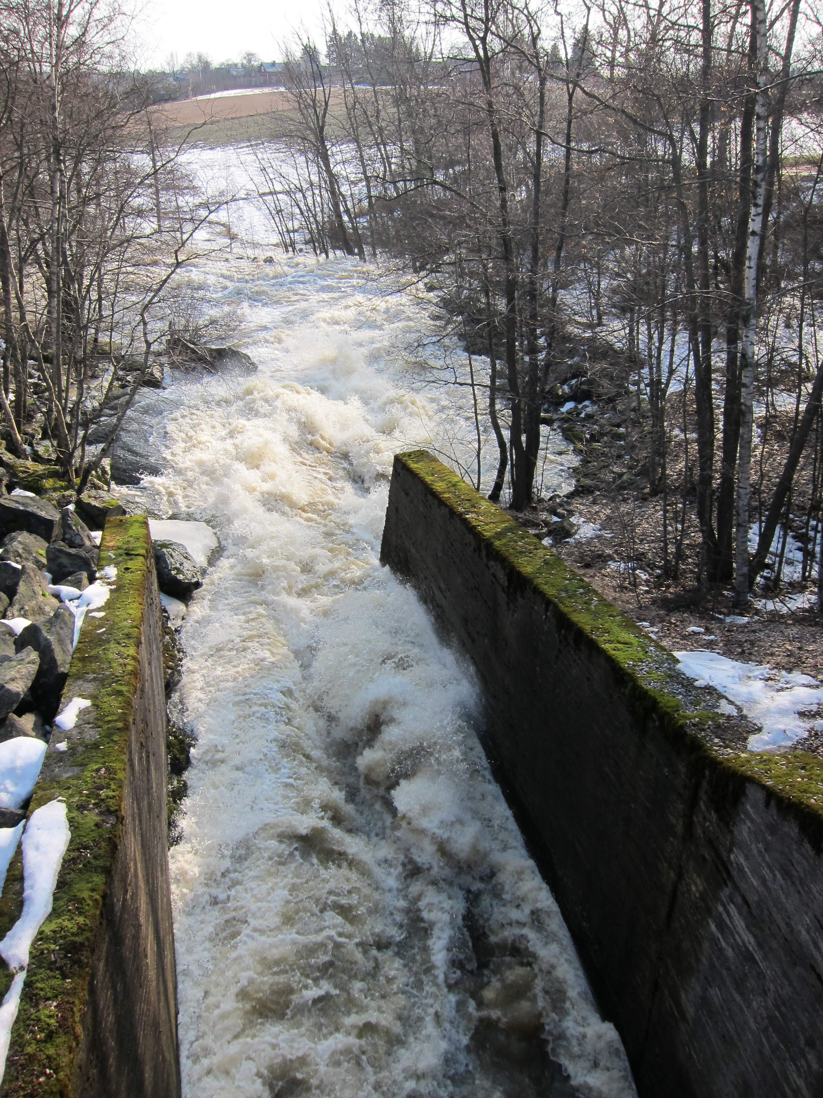 Raisionjoki is a river in Finland Proper. Its origins are in Rusko, and it flows through Raisio and Turku to the Archipelago Sea.